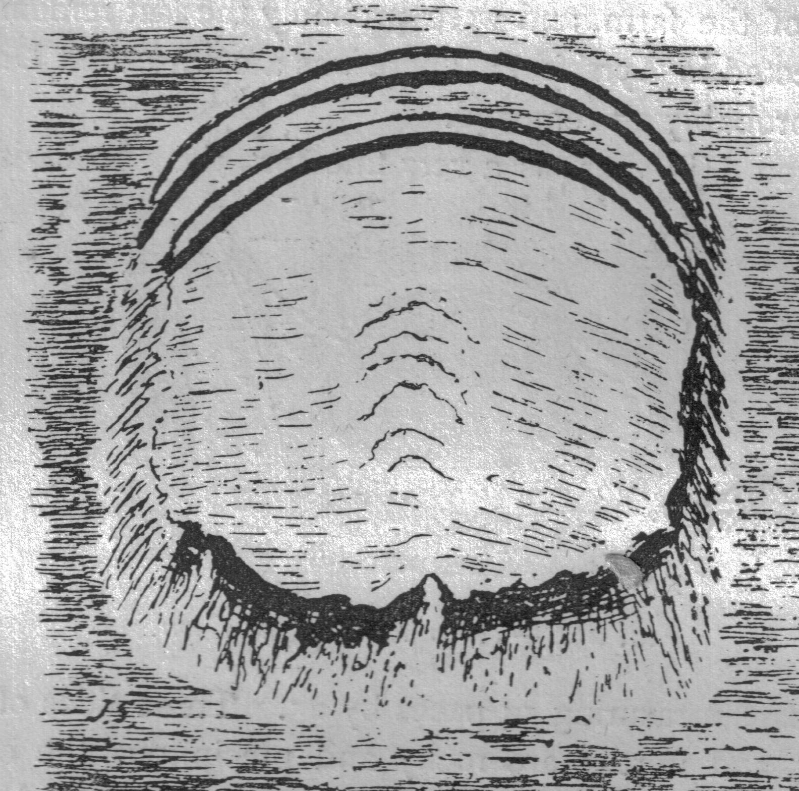 Dunduff Fort or Dane's Hill - near Dunure, South Ayrshire, Scotland